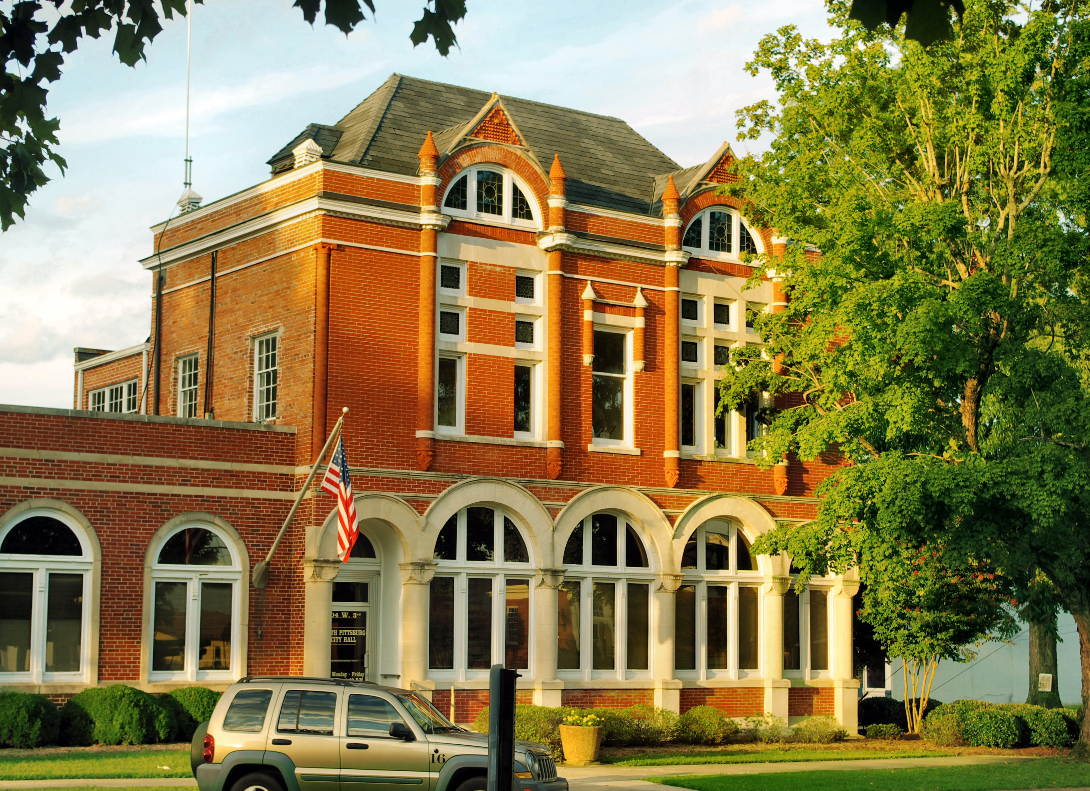 City Hall in South Pittsburg, Tennessee, United States. Built in 1887 as the First National Bank, this building is now listed on the National Register of Historic Places.